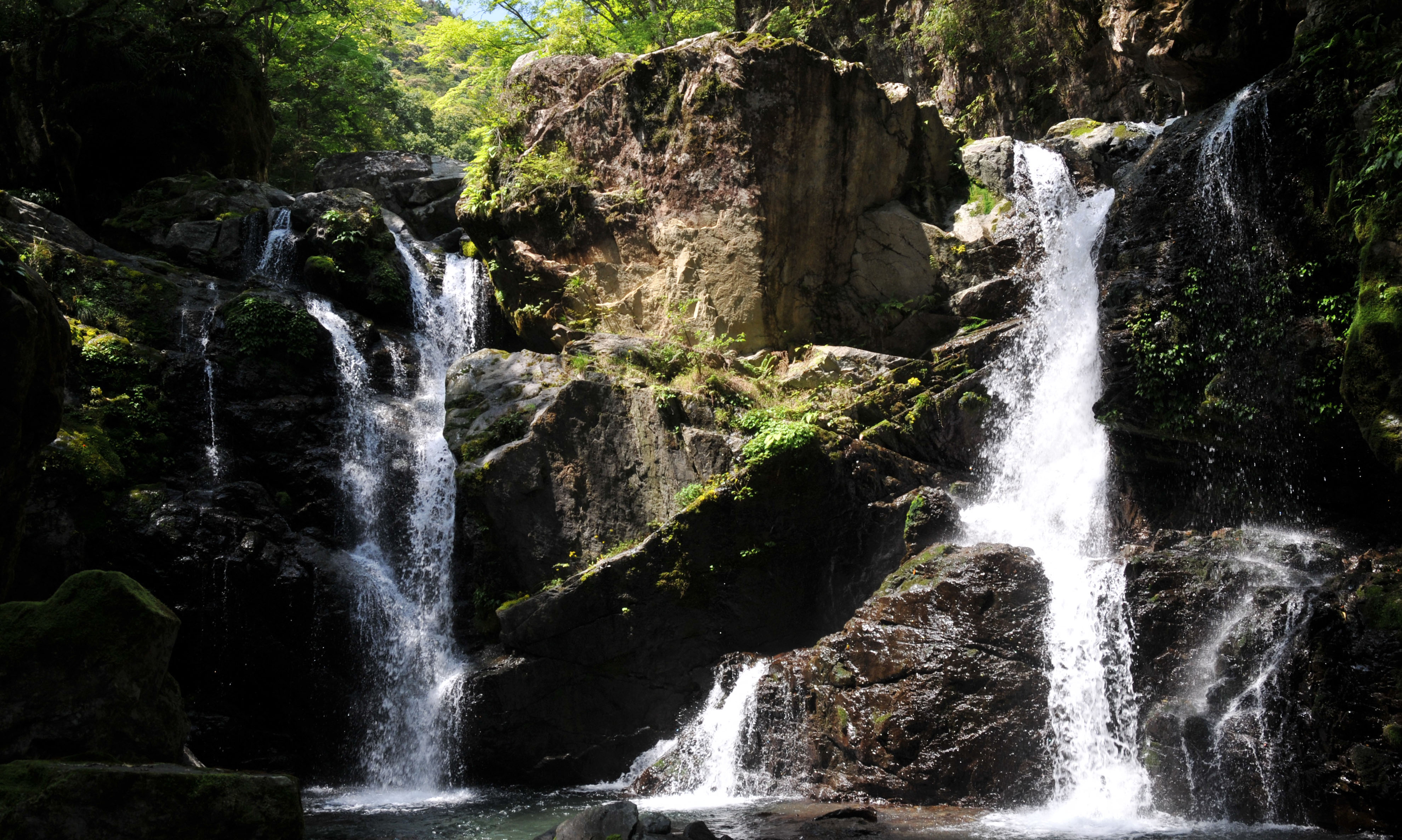 Nijū-daki falls, Todoroki 99 waterfalls